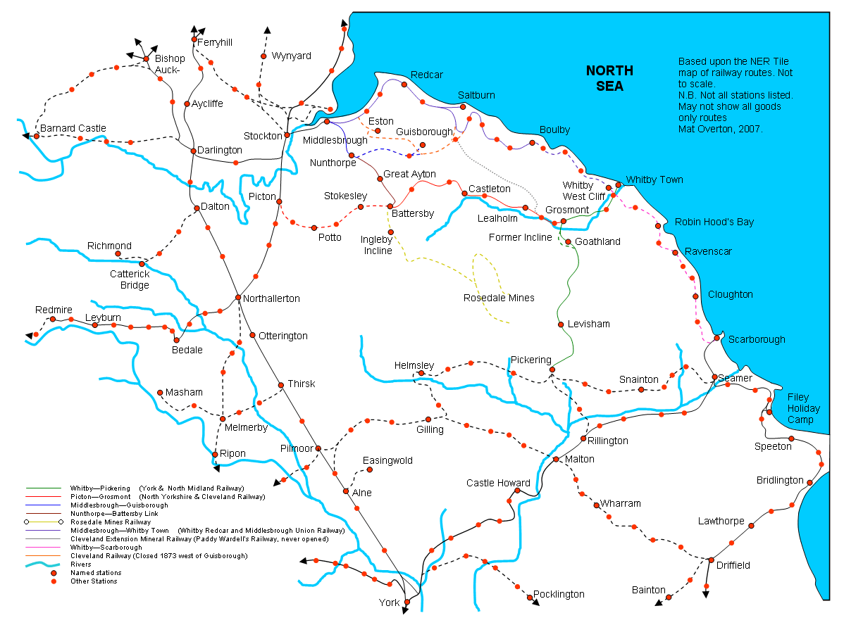 Map of former and existing railway lines across the North Yorkshire Moors, Mat Overton, 2006